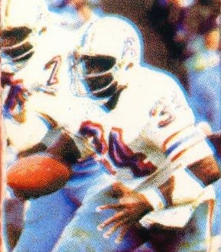 Houston Oilers' running back Eric Campbell rushing the ball.